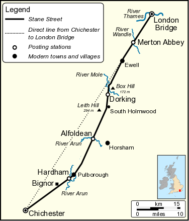 Map of Stane Street, a road constructed by the Romans in south east England. This map was drawn after I. D. Margary, Roman Ways in the Weald 1965 Phoenix House.